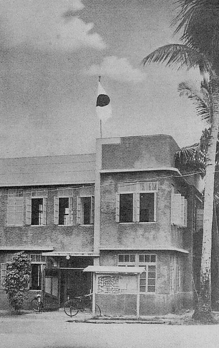 Nan'yo Shimpou Sha Building